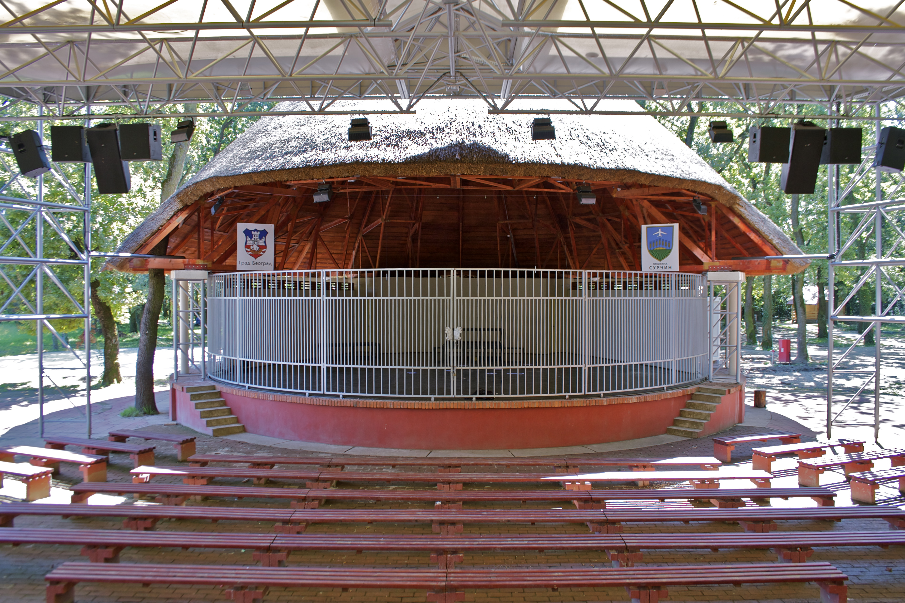 Позориште на отвореном у Бојчинској шуми